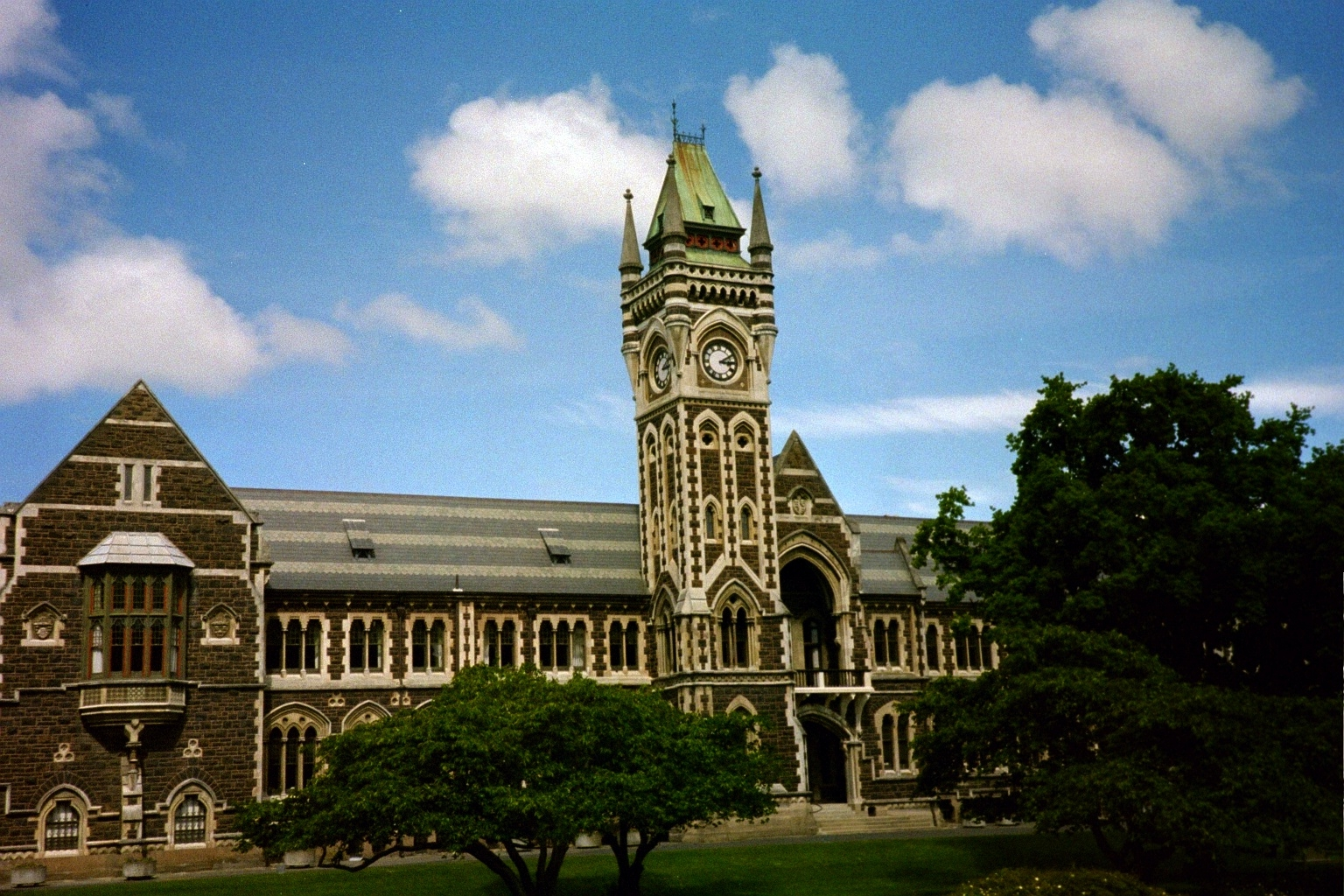 University of Otago, Dunedin, New Zealand. Clocktower.